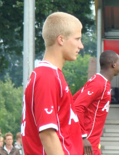 Image of the FC Twente-player Wout Droste